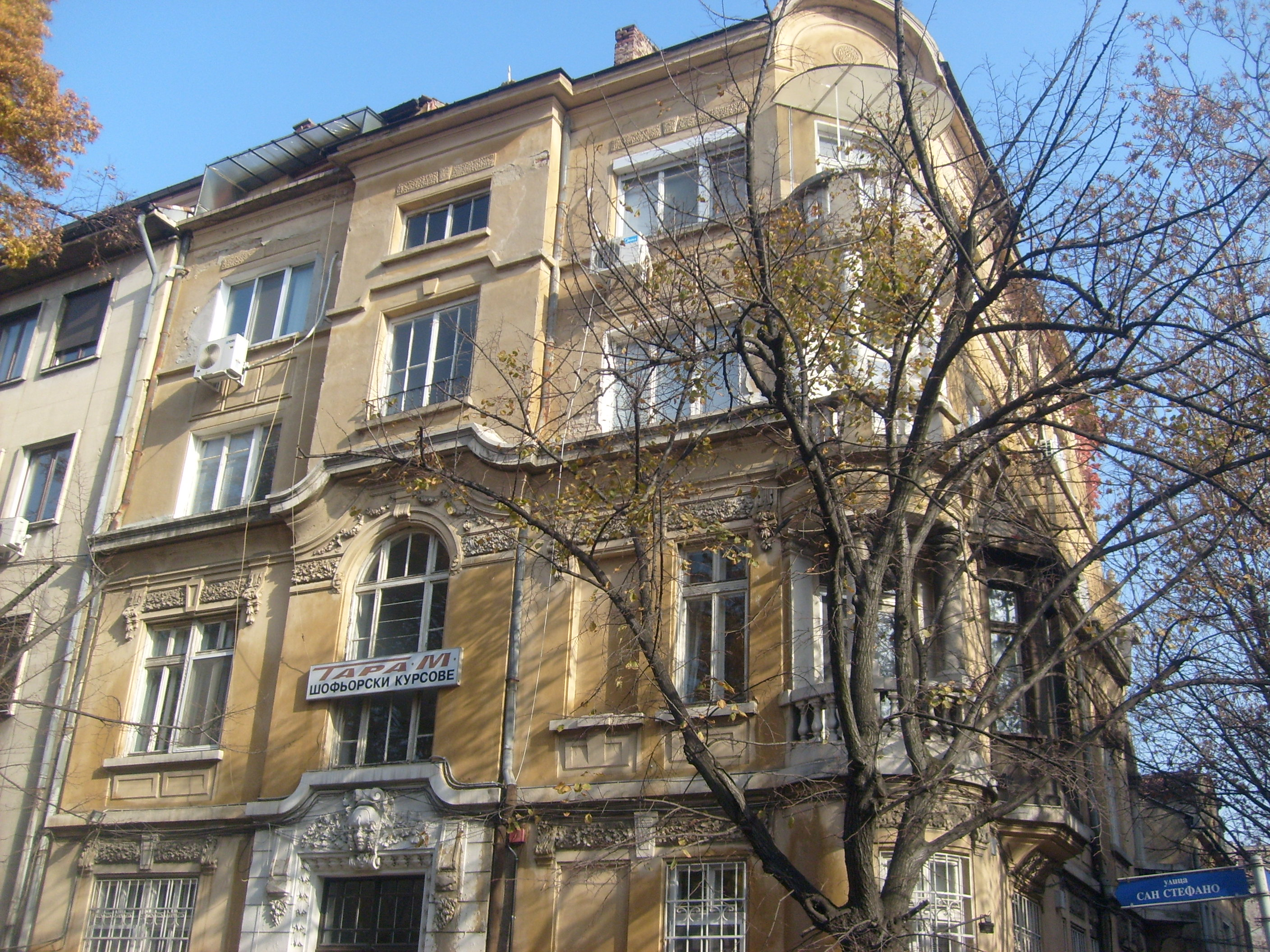 Sofia, Bulgaria